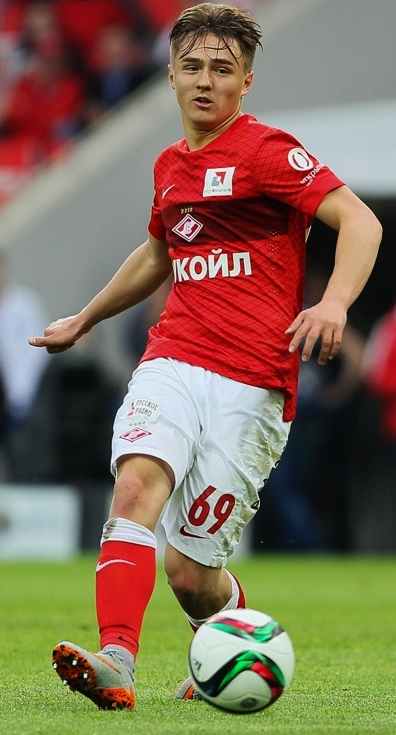 Denis Davydov (football)